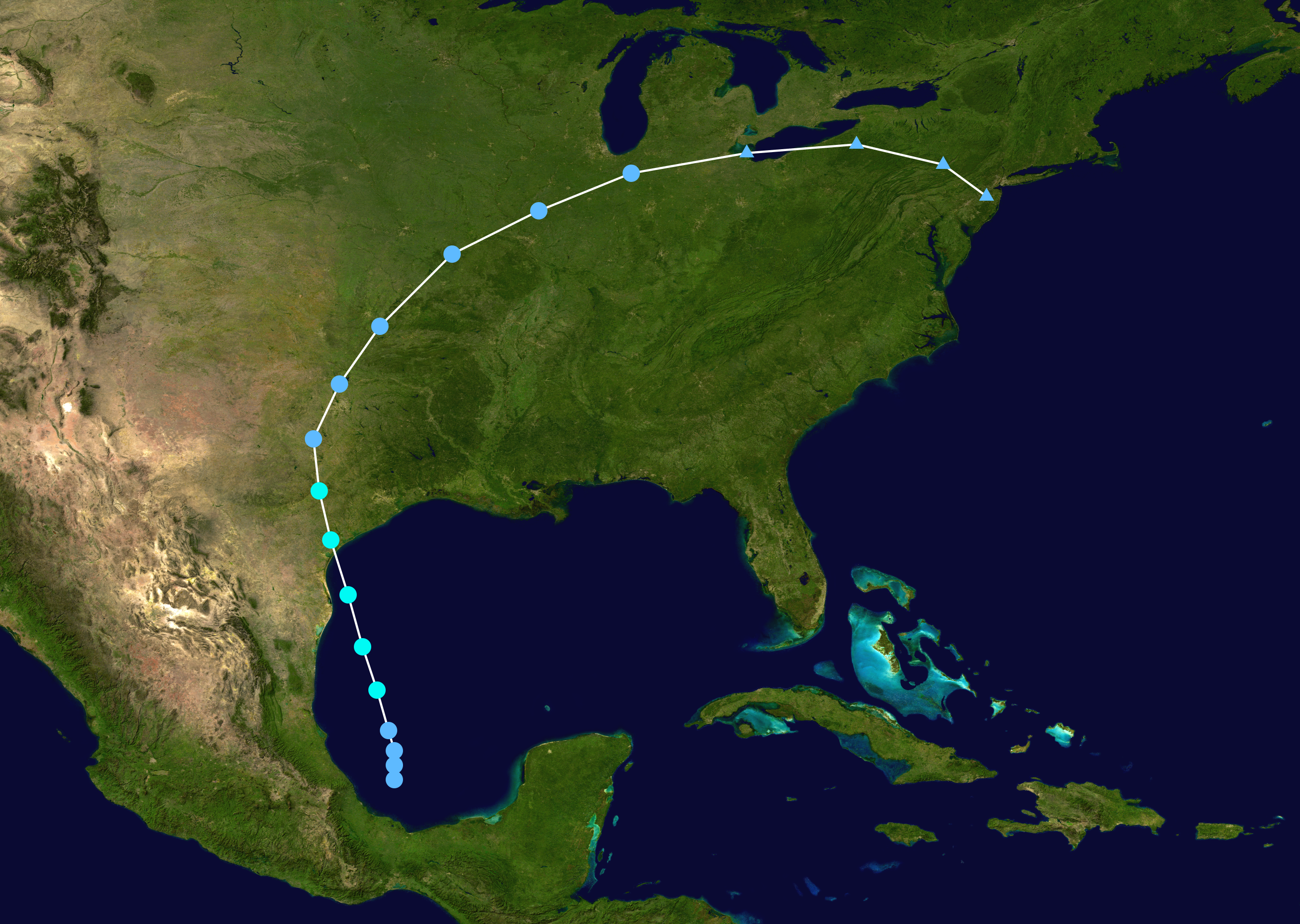 Tropical Storm Candy (1968) track. Uses the color scheme from the Saffir-Simpson Hurricane Scale.